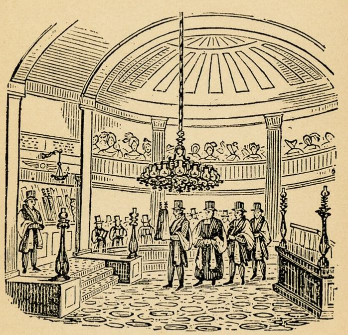 Woodcut illustration of the interior of Kehillah Kadosh Mikveh Israel at the dedication of the new building on Cherry Street in 1825.